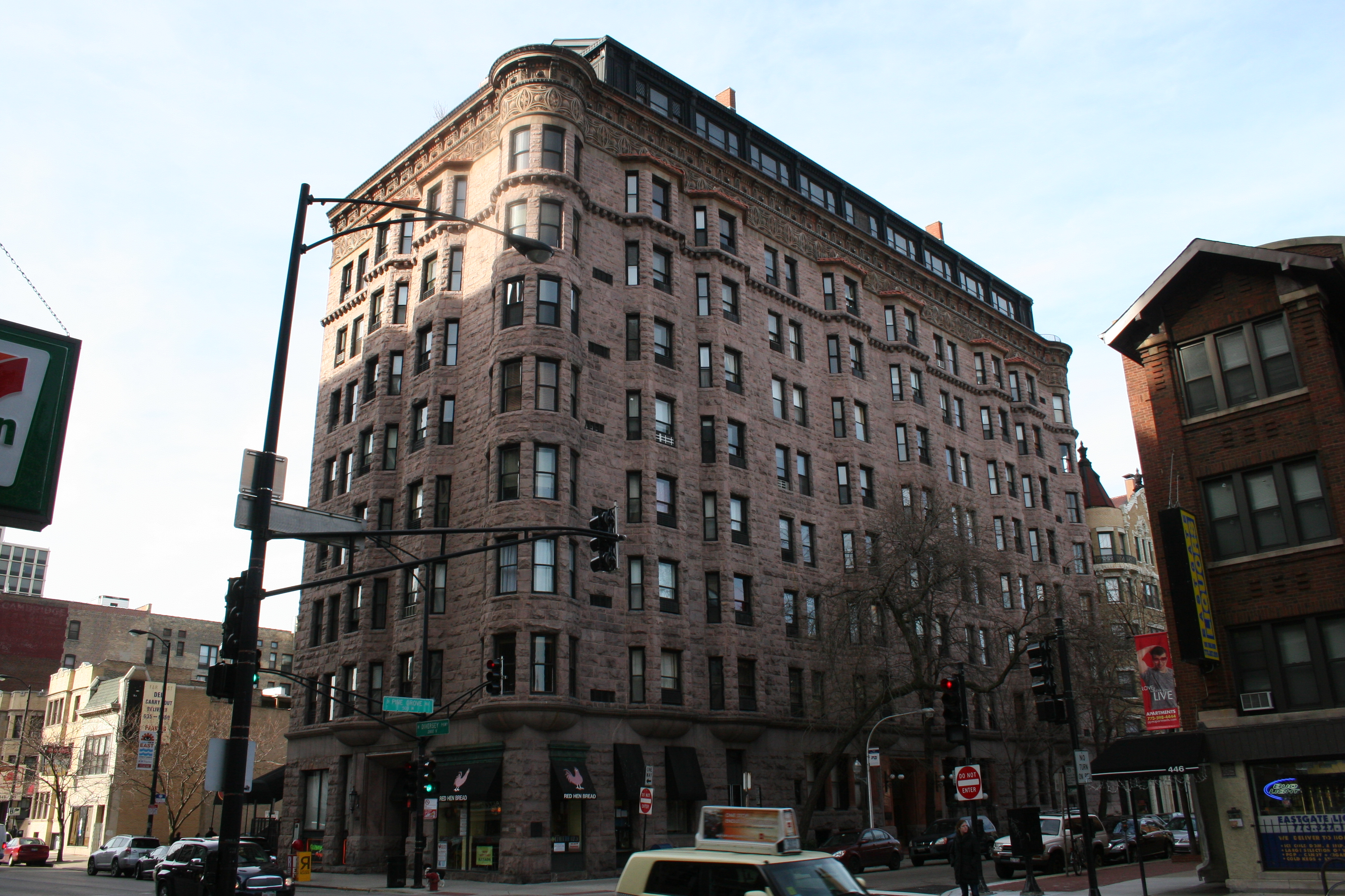 Apartment building in Chicago, IL